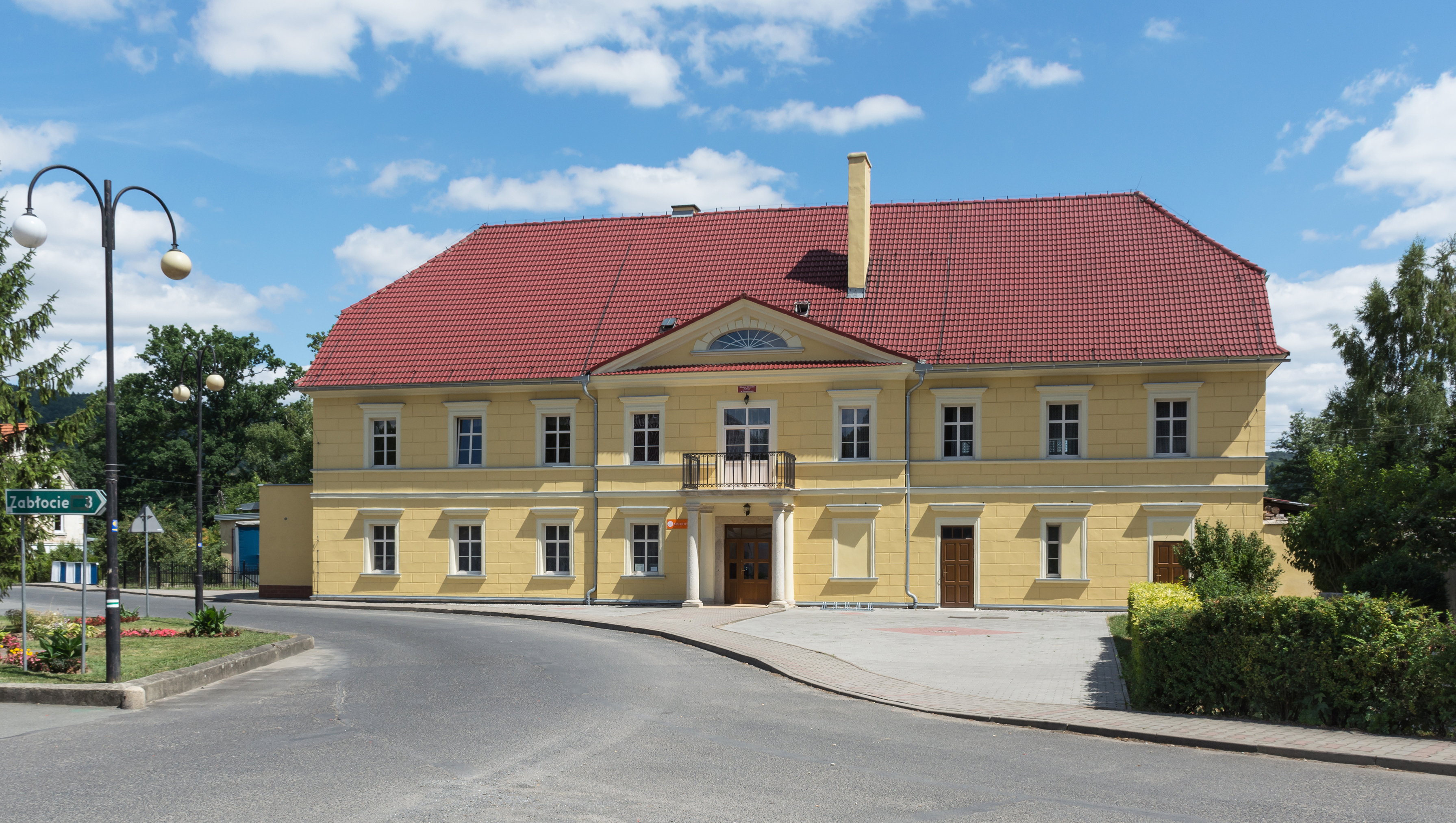 Village Cultural Centre in Gorzanów